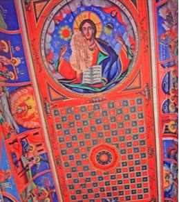 Saint Nicholas Church in Krajnici Fresco